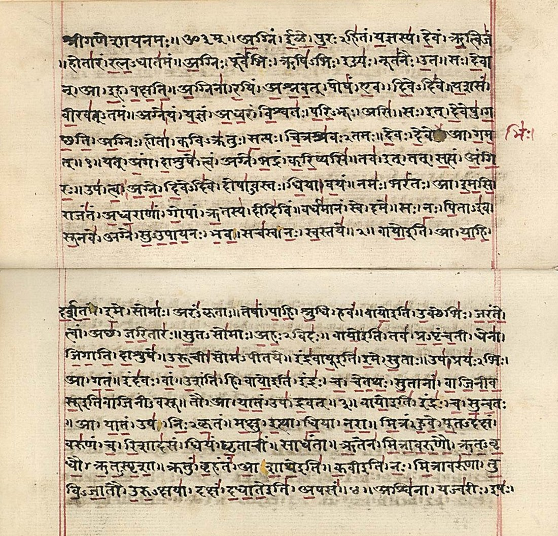 Rigveda MS in Sanskrit on paper, India, early 19th c., 4 vols., 795 ff. (complete), 10x20 cm, single column, (7x17 cm), 10 lines in Devanagari script with deletions in yellow, Vedic accents, corrections etc in red. Binding: India, 19th c., blind-stamped brown leather, gilt spine, sewn on 5 cords, marbled endleaves Provenance: 1. Eames Collection, Chicago, no. 1956; 2. Newberry Library, Chicago, ORMS 960 (acq.no. 152851-152854) (ca. 1920-1994); 3. Sam Fogg cat. 17(1996):42.